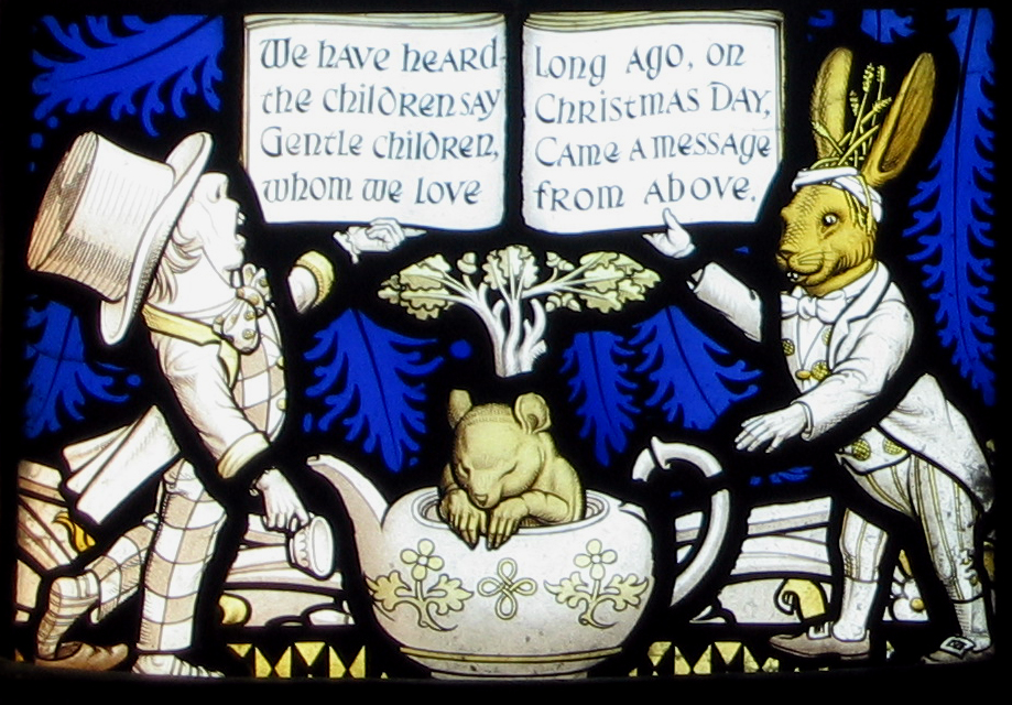 Photograph taken by me 7 April 2007.